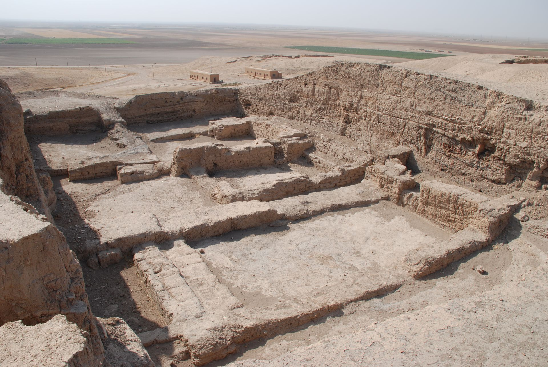 Tell Brak, Syria, area HH, Mitanni palace